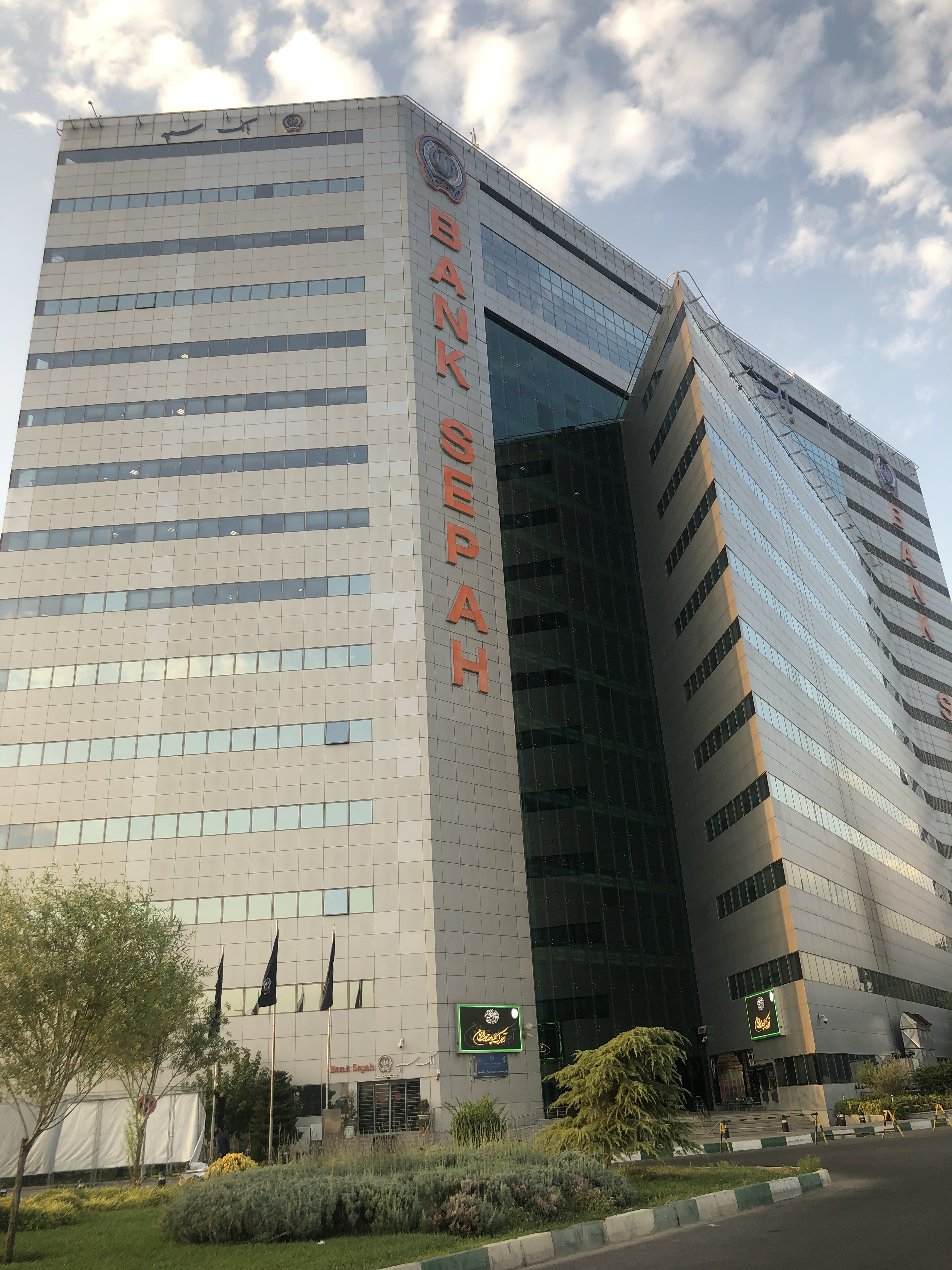 Sepah Bank Central Building